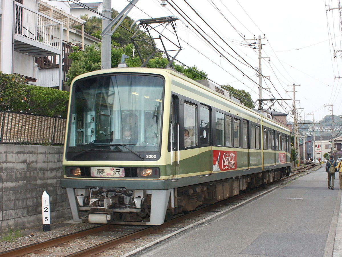 Enoden Type 2000